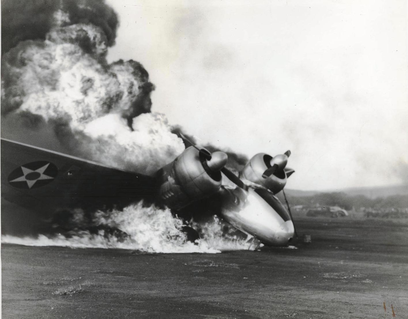 A burning U.S. Marine Corps Lockheed JO-2 Electra Junior (BuNo 1051) at Marine Corps Air Station Ewa during the attack on Pearl Harbor.Original description: "Another casualty of the Japanese raid on Pearl Harbor. This photograph was taken seconds after the plane exploded."